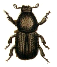 Scolytus multistriatus, from Calwer's Käferbuch, Table 30, Picture 5. Taxonomy was updated to 2008, using mostly the sites Fauna Europaea and BioLib. Please contact Sarefo if the determination is wrong!